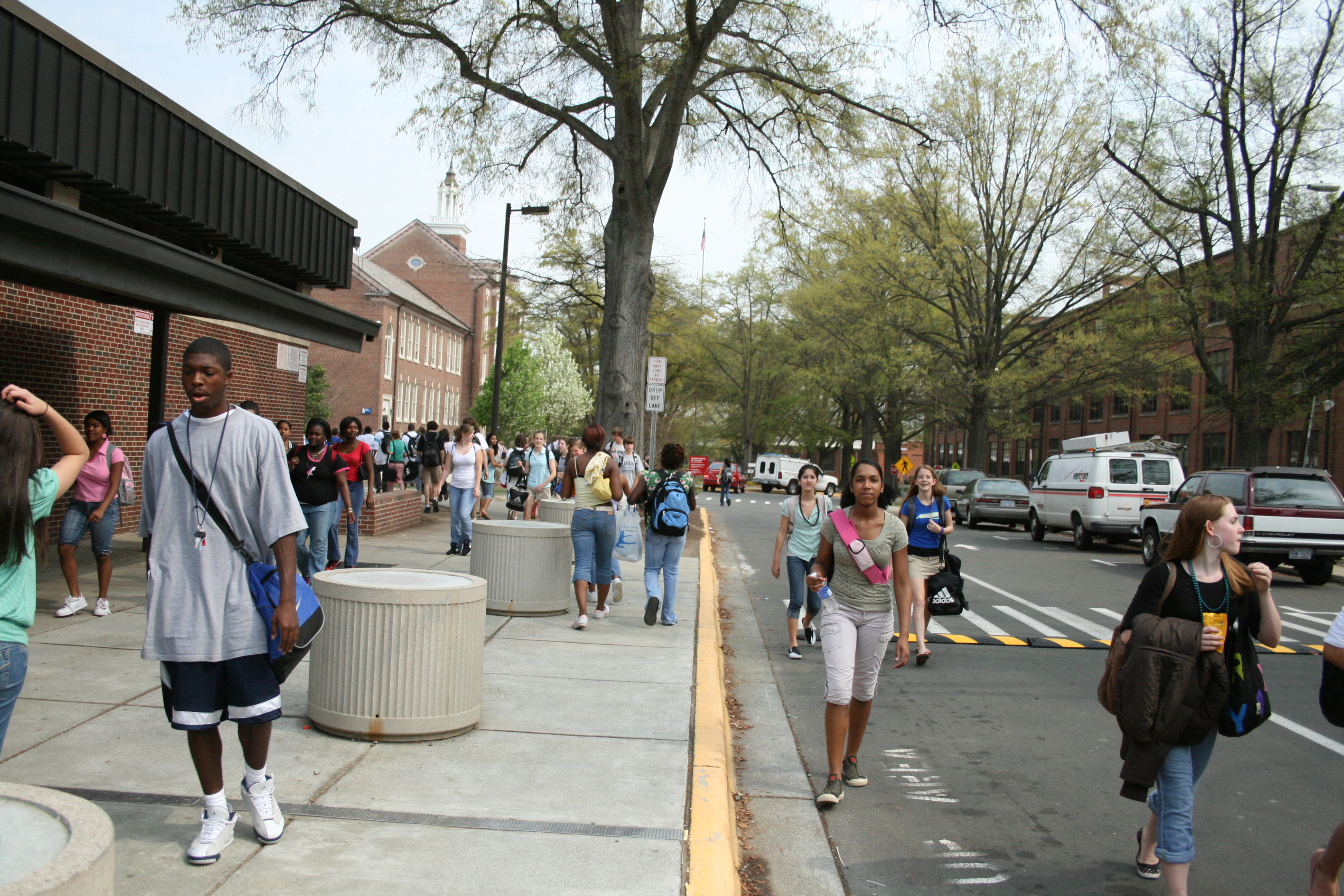 Students walk between classes in late March. Campus construction closed two of the three ways to traverse the campus end to end in 2006-2007, leaving this sidewalk very busy between bells.